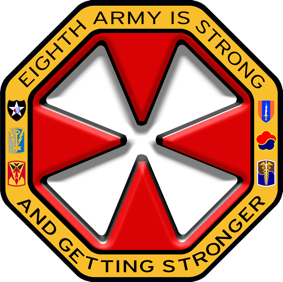 Eighth Army Official DUI 한국어 (조선): 주한 미8군 DUI